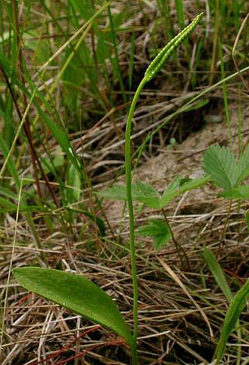 Ophioglossum pusillum. US Forest Service photo, no copyright.